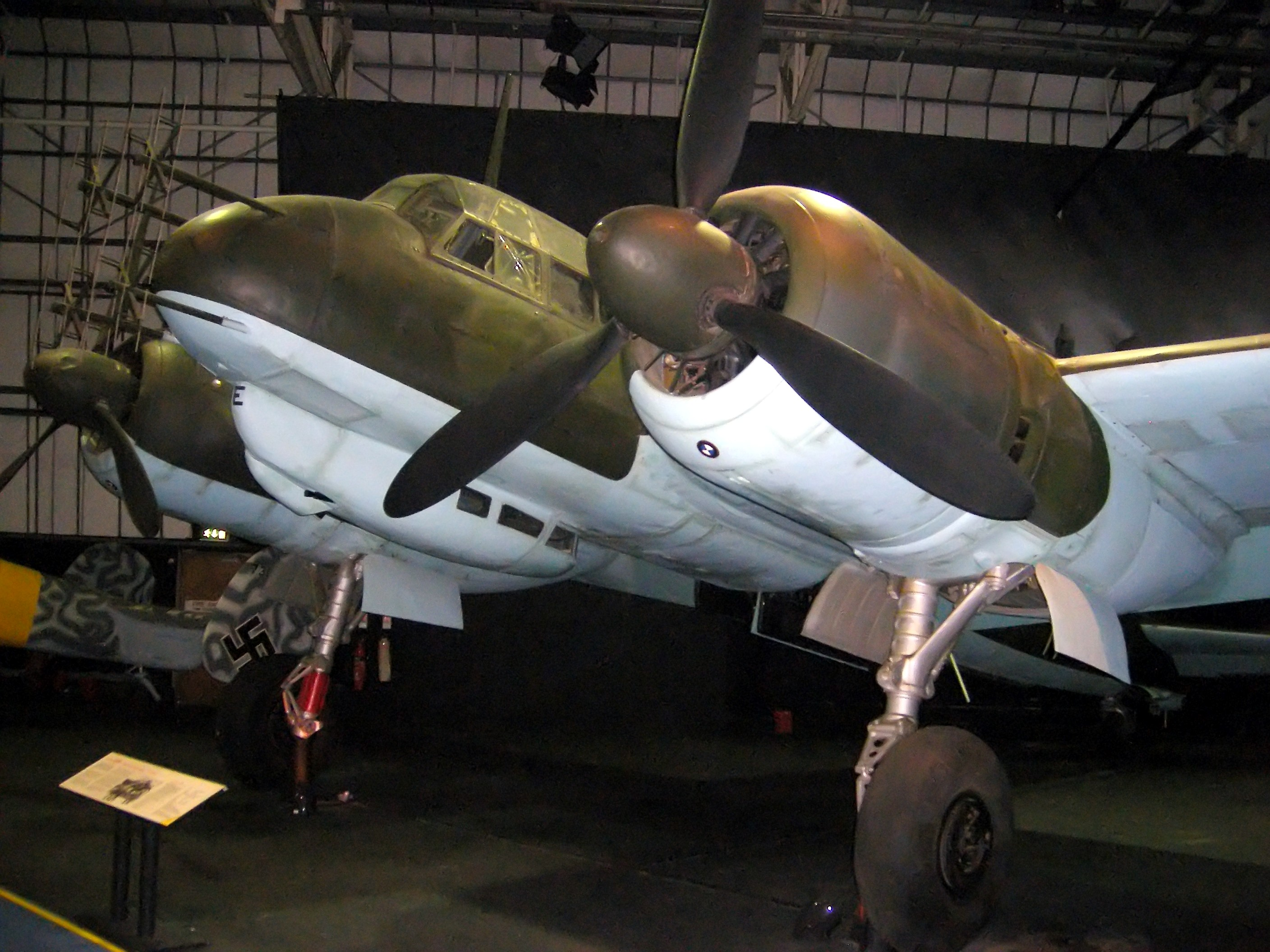 Ju 88 R-1 nightfighter, Werknummer 360043, in the RAF museum at RAF Hendon. This aircraft is well known because of its crew defecting to the UK in 1943. The antennae of the FuG 202 Lichtenstein B/C radar (ITU-classificatio: Radiolocation land station in the radiolocation service) installation can be seen; although these particular items are replicas, as the entire radar system was removed from the aircraft for evaluation during the war.